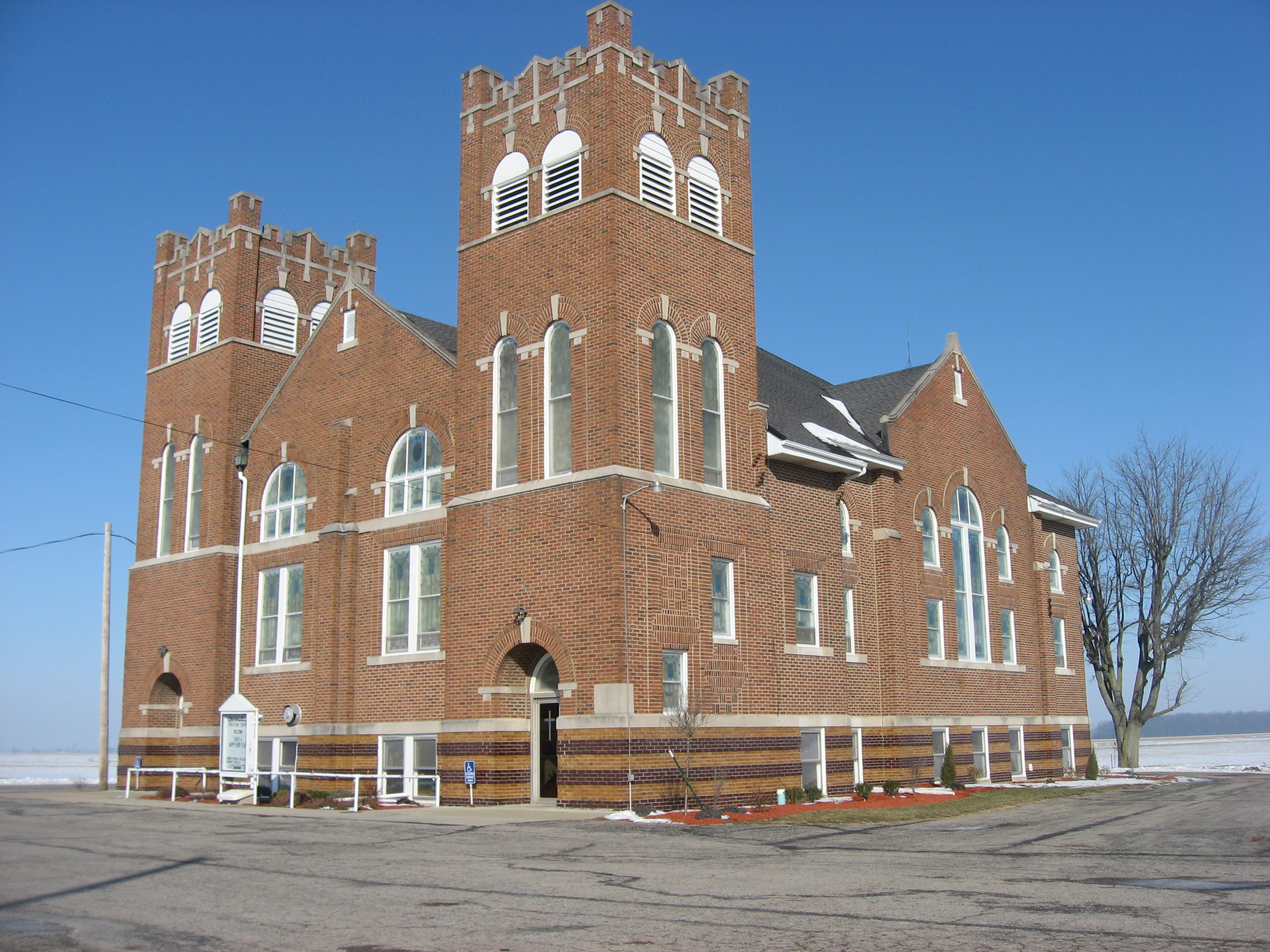 Front and eastern side of Emanuel's Christian Church, located at 16724 County Road Y northwest of New Bavaria in Pleasant Township, Henry County, Ohio, United States.